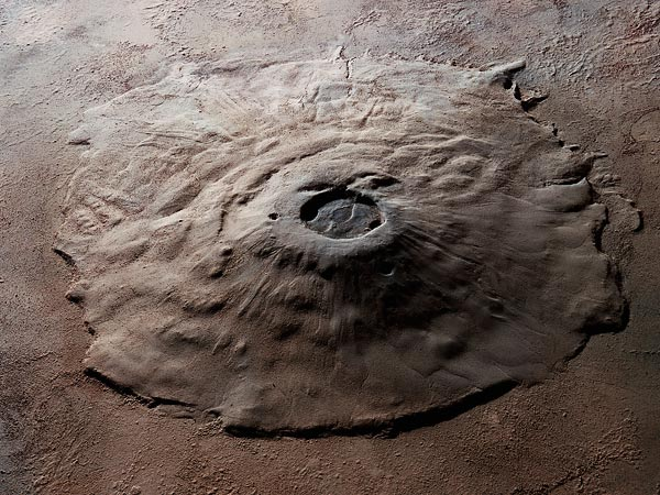 This is an orbital view of Olympus Mons on Mars.